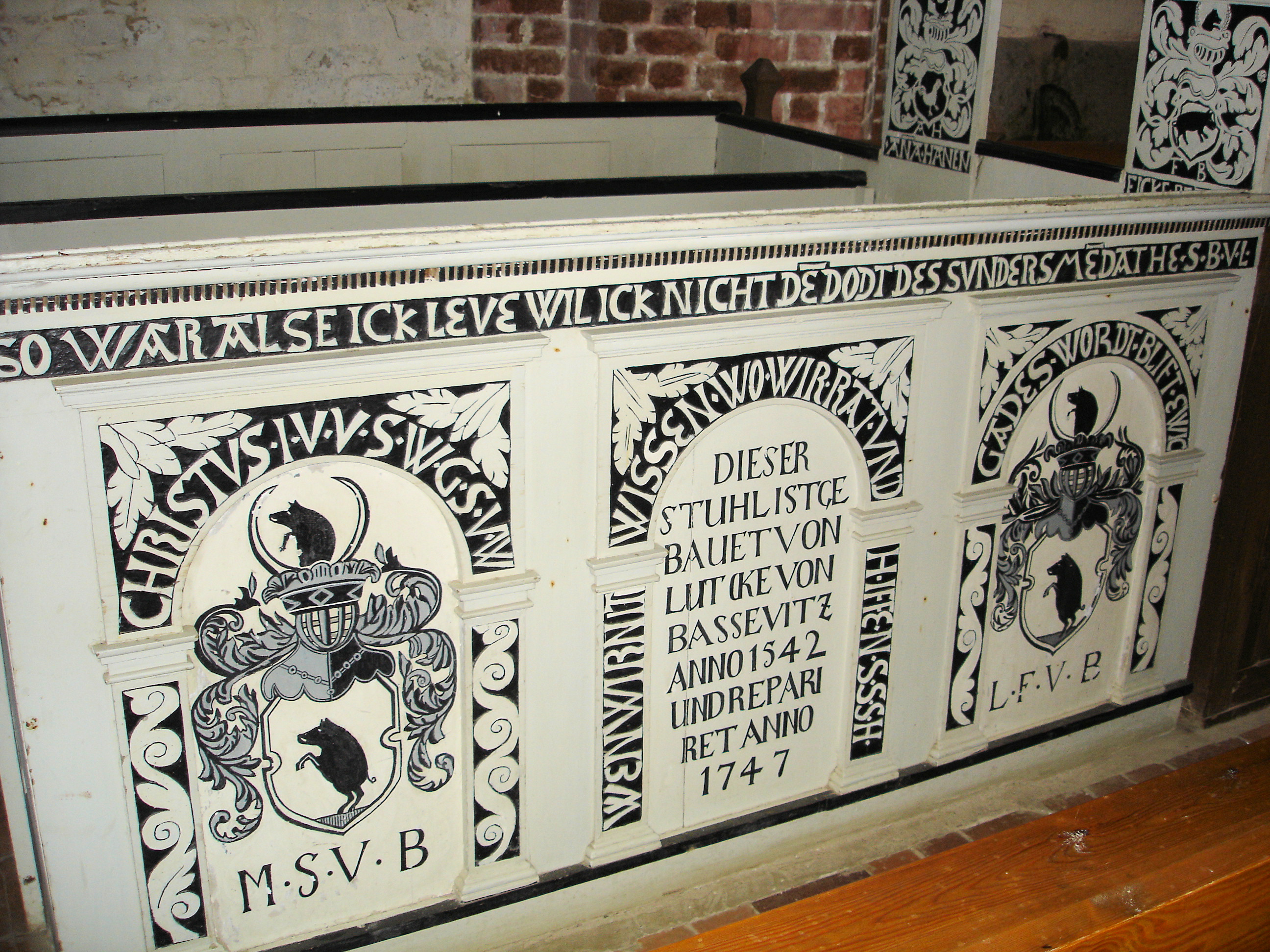 Church in Basse, bench